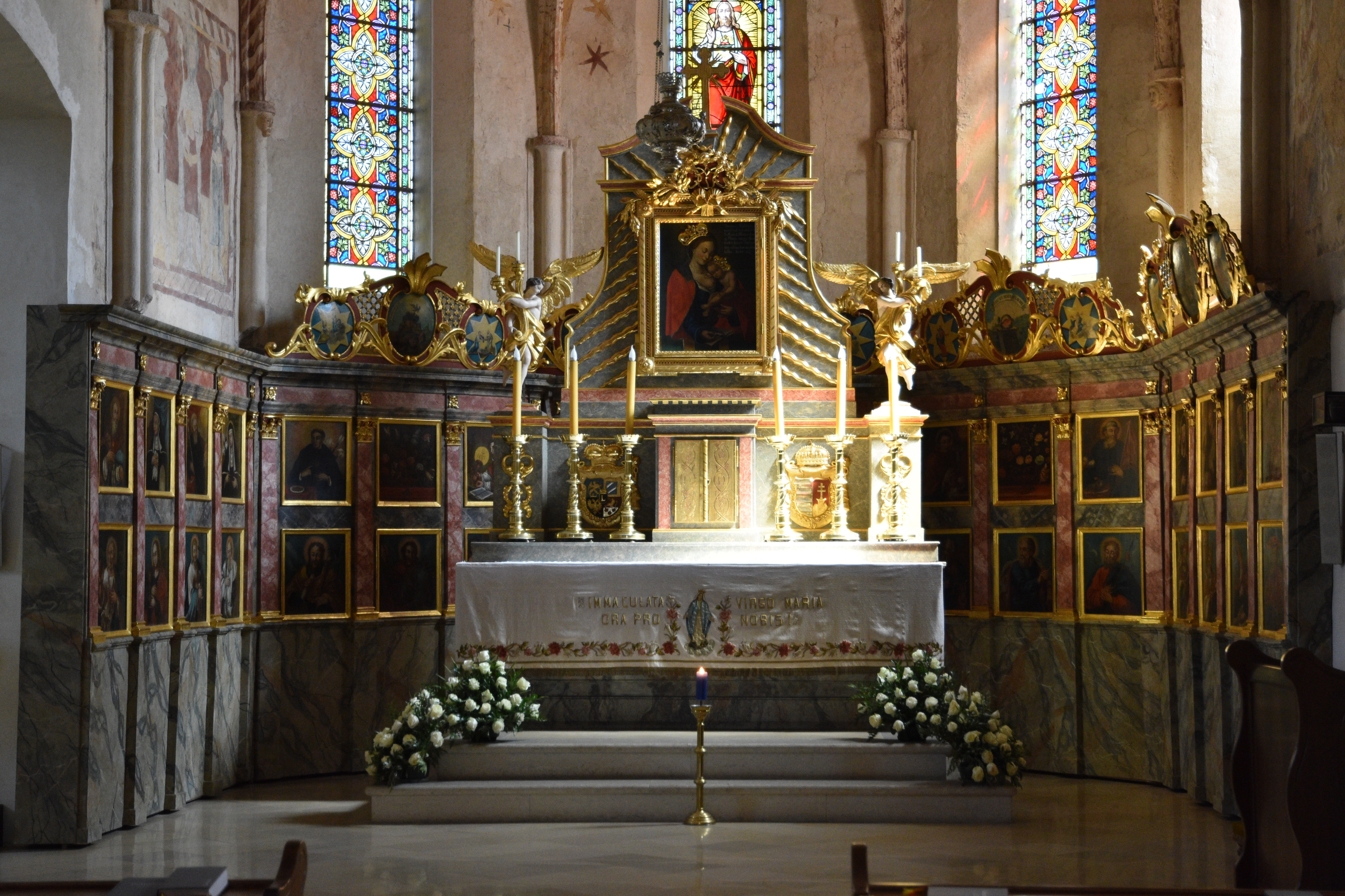 Church Wallfahrtskirche Mariae Geburt, Rattersdorf-Liebing - Interior